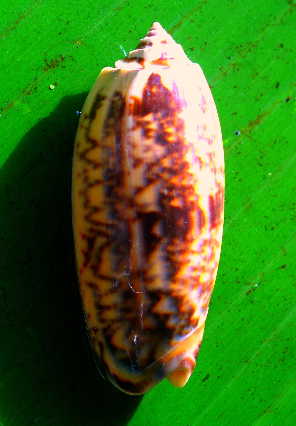 Photo of lateral view of the shell of Common Olive Oliva oliva.